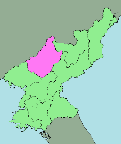 area map of Chagang Province